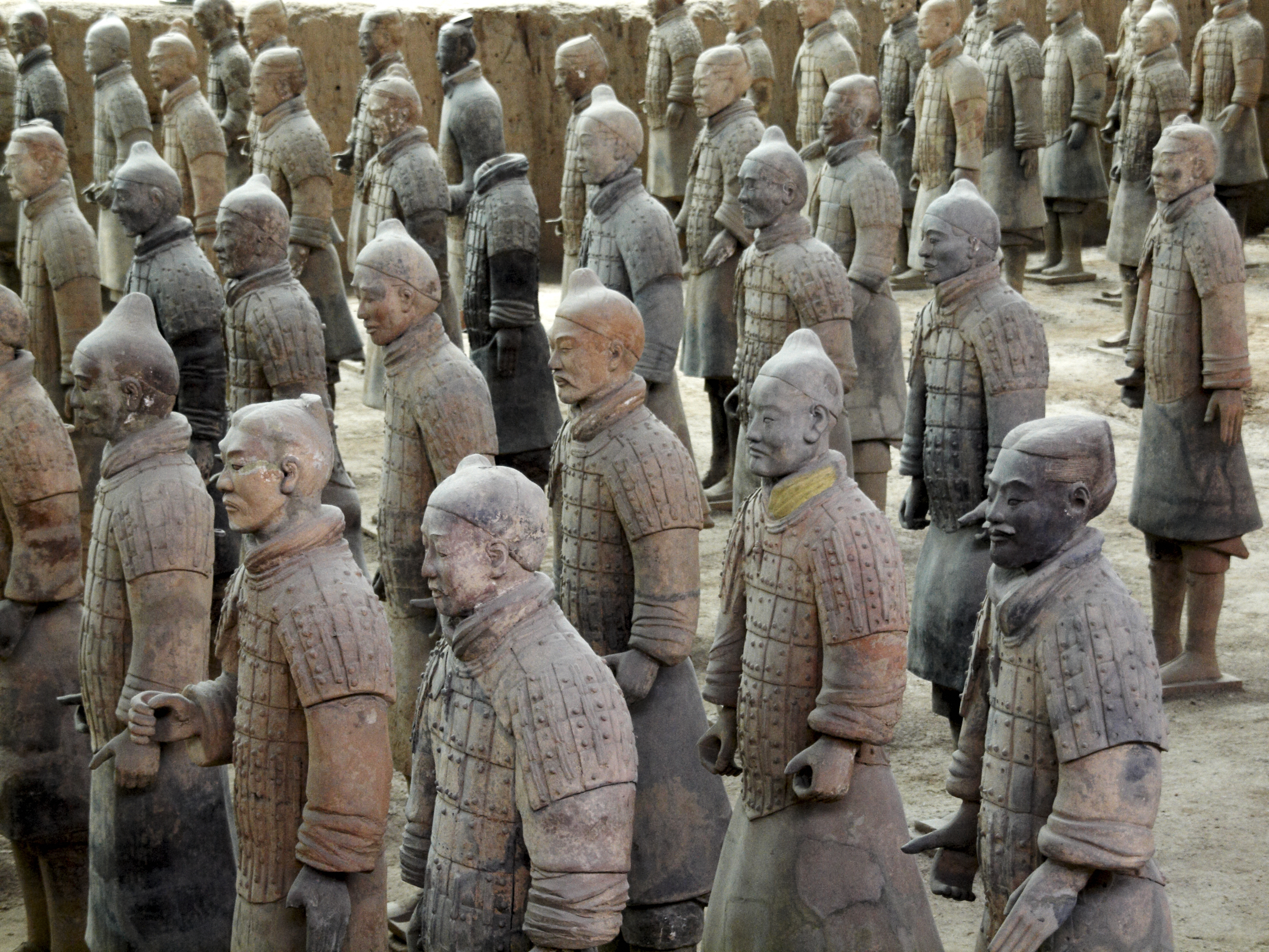 The terracotta warriors were originally painted in beautiful colors. Unfortunately, fire damage, water damage and more than 2,000 years of natural erosion caused the paint to peel off.